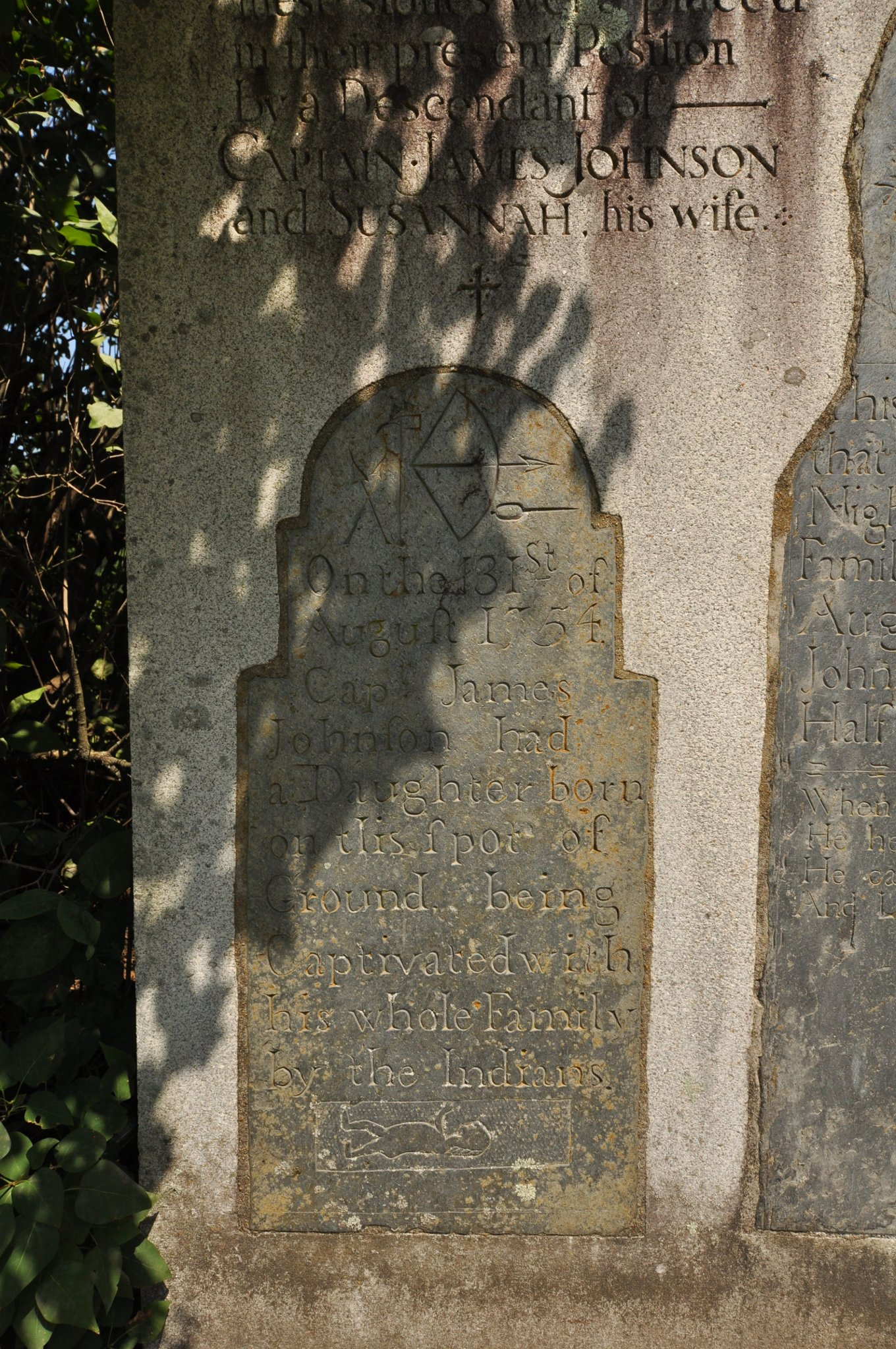 Indian Stones, Reading, Vermont, commemorating the capture by Native Americans of a pregnant colonist and subsequent birth of a child near the site. This view is of the left stone.